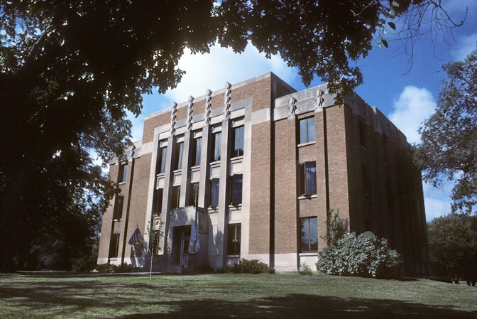 The Jerauld County Courthouse in Wessington Springs, South Dakota {brightness-adjusted from the original)